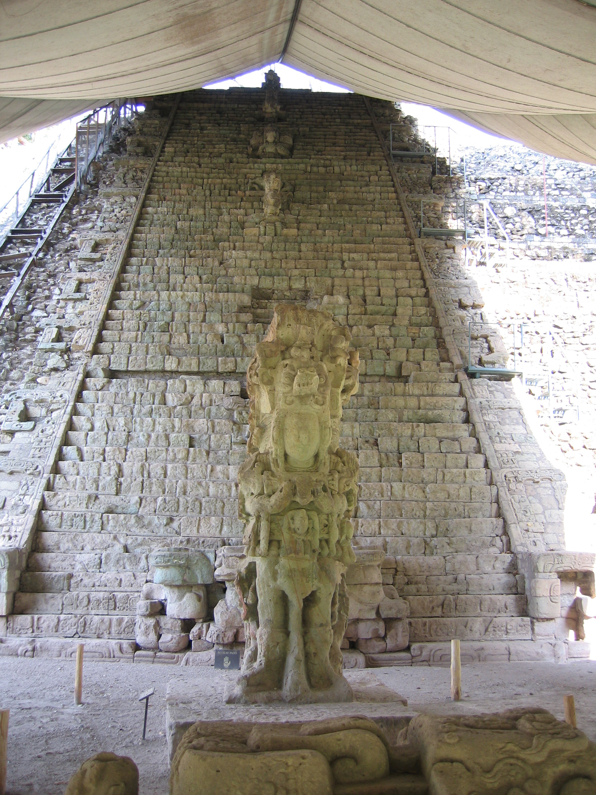 Stela M and the Hieroglyphic Stairway on the archeological site of Copán, a mayan city.